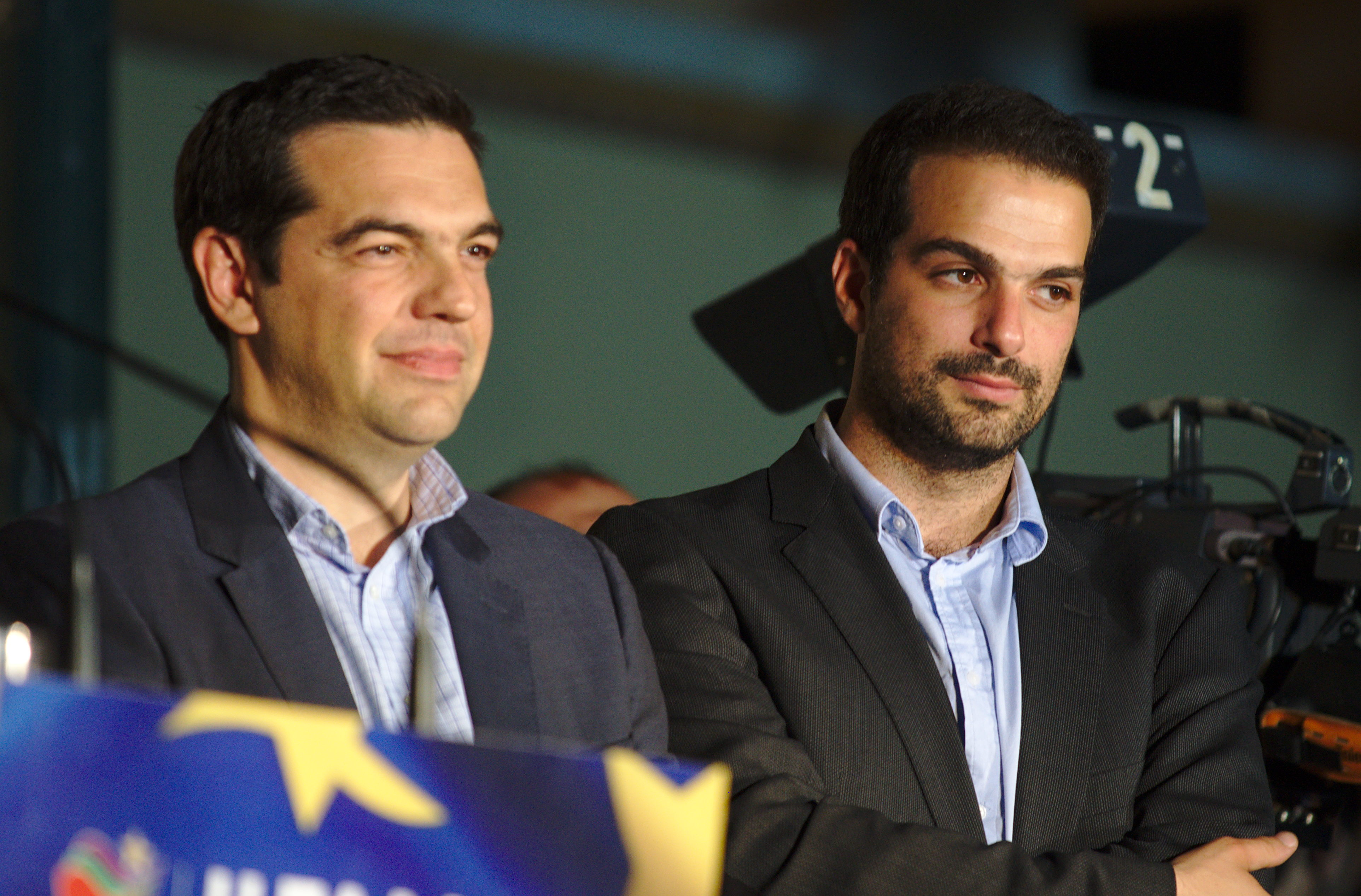 Alexis Tsipras with Gabriel Sakellaridis on stage after the May 25th 2014 election results have come in